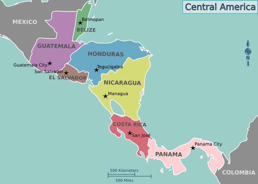 Map of Central America for use on Wikivoyage, English version